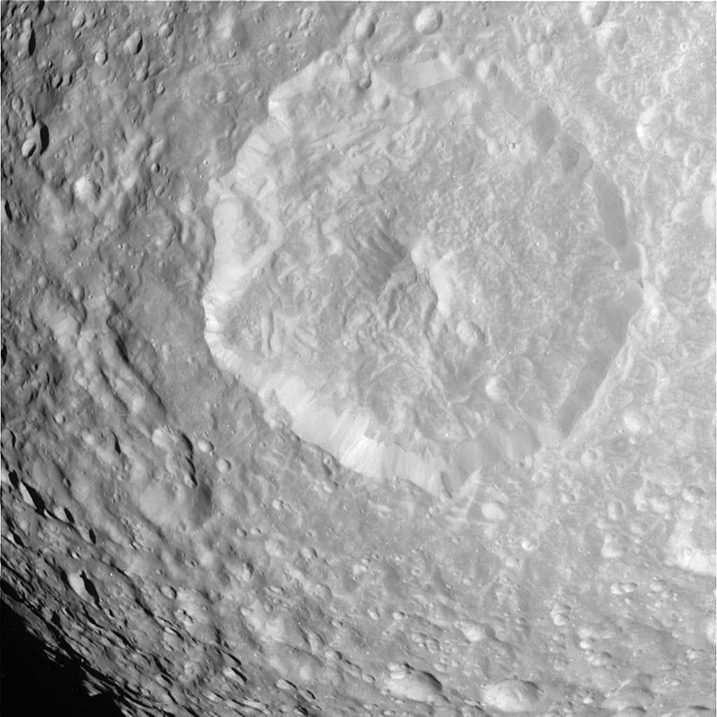 This raw, unprocessed image of Mimas was taken by Cassini on Feb. 13, 2010. The image was taken in light with the Cassini spacecraft narrow-angle camera. The view was acquired at a distance of approximately 35,000 kilometers (22,000 miles) from Mimas. Image scale is 209 meters (687 feet) per pixel. The Cassini Equinox Mission is a joint United States and European endeavor. The Jet Propulsion Laboratory, a division of the California Institute of Technology in Pasadena, manages the mission for NASA's Science Mission Directorate, Washington, D.C. The Cassini orbiter was designed, developed and assembled at JPL. The imaging team consists of scientists from the US, England, France, and Germany. The imaging operations center and team lead (Dr. C. Porco) are based at the Space Science Institute in Boulder, Colo. For more information about the Cassini Equinox Mission visit and The original NASA image has been modified by deinterlacing and sharpening.